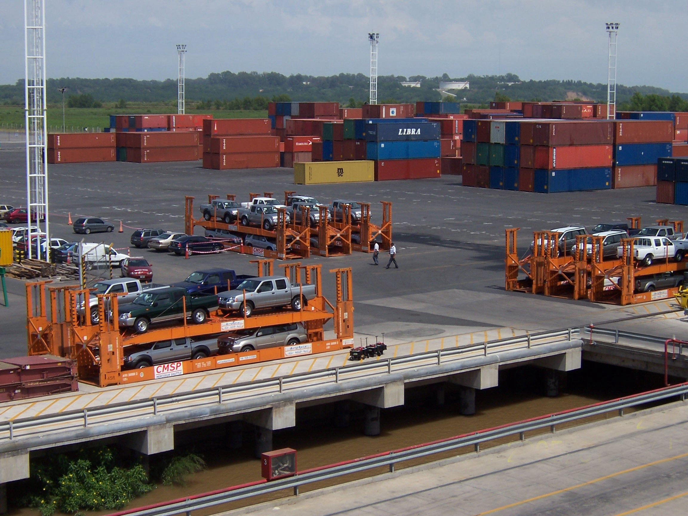 Special 45 ft car transport equipment at the port of Zárate, Argentina.